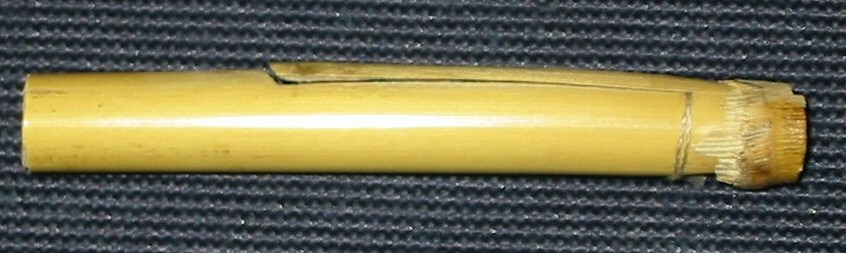 Baghèt bass drone single reed made of cane